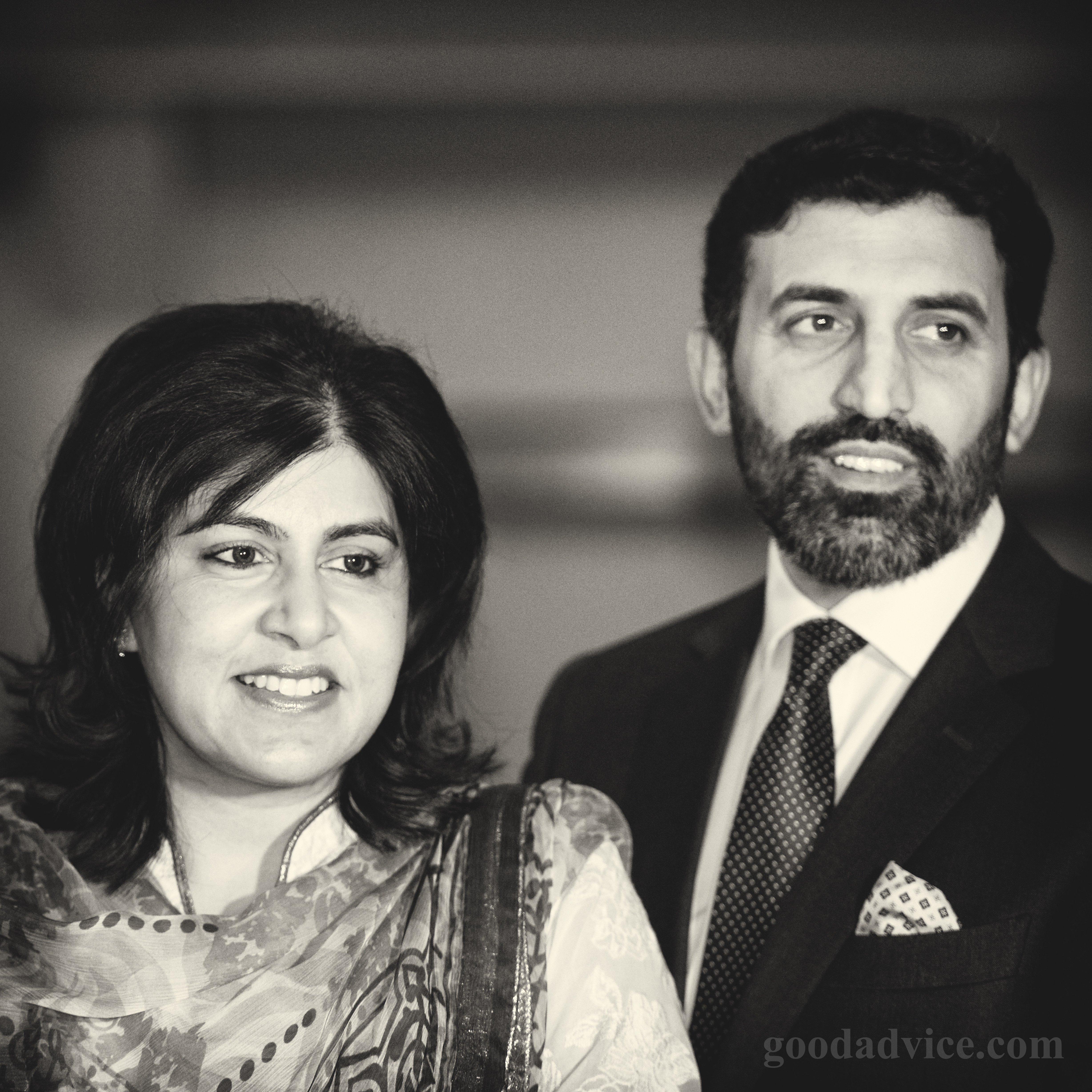 Cedar Court Hotel, Brighouse